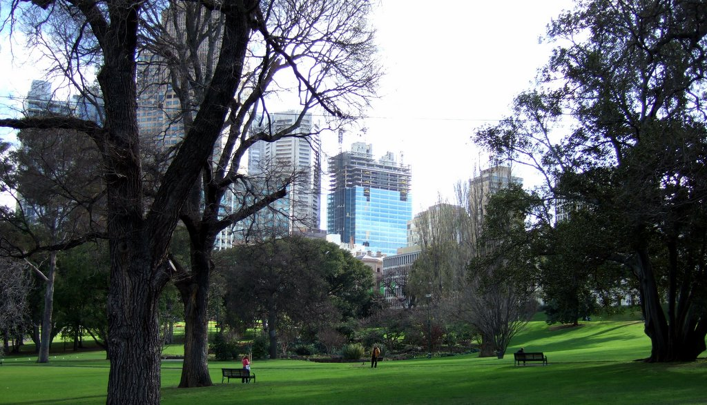 View of Treasury Gardens looking towards the CBD Photo taken by Steve Bennett